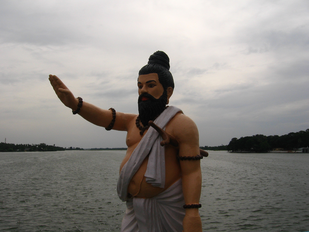 Statue of Tamil Saint Agathiar. Found at Kallanani across Kaveri.